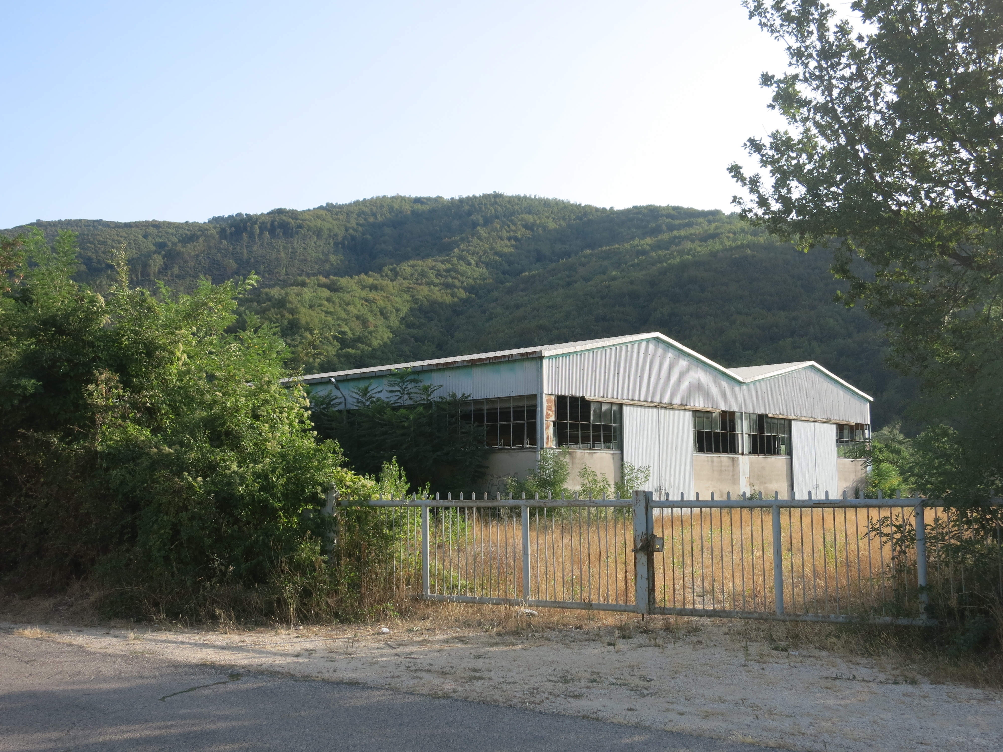 Abandoned industrial plant located near the Cittaducale train station (province of Rieti, Lazio, Italy), on the Terni-Rieti-L'Aquila-Sulmona line.